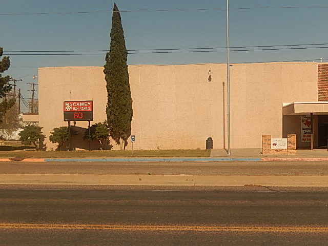 I took photo with Nikon camera of McCamey High School.